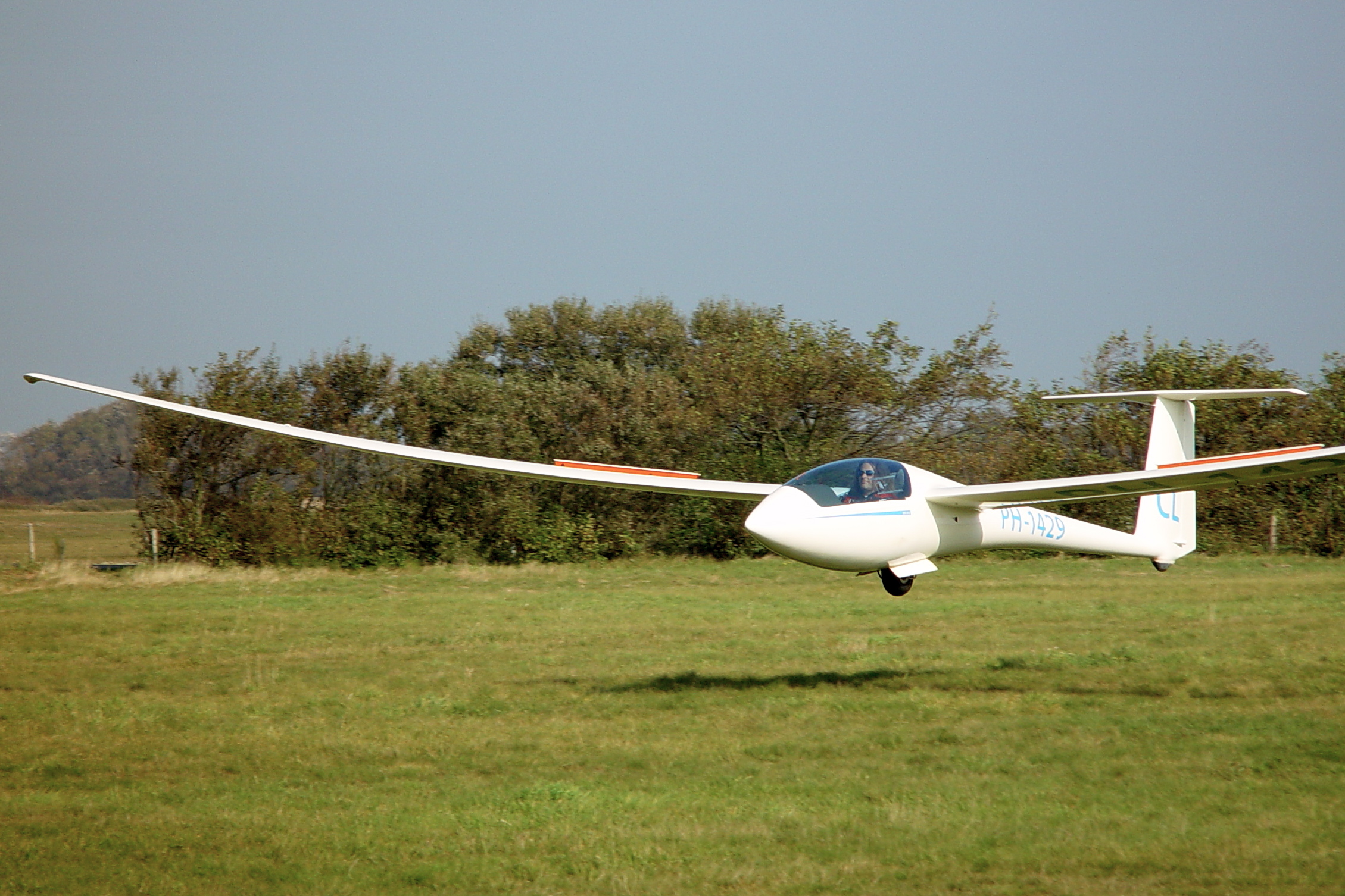 Touch down ASW-20 CL al Haamstede Airport (Netherlands)